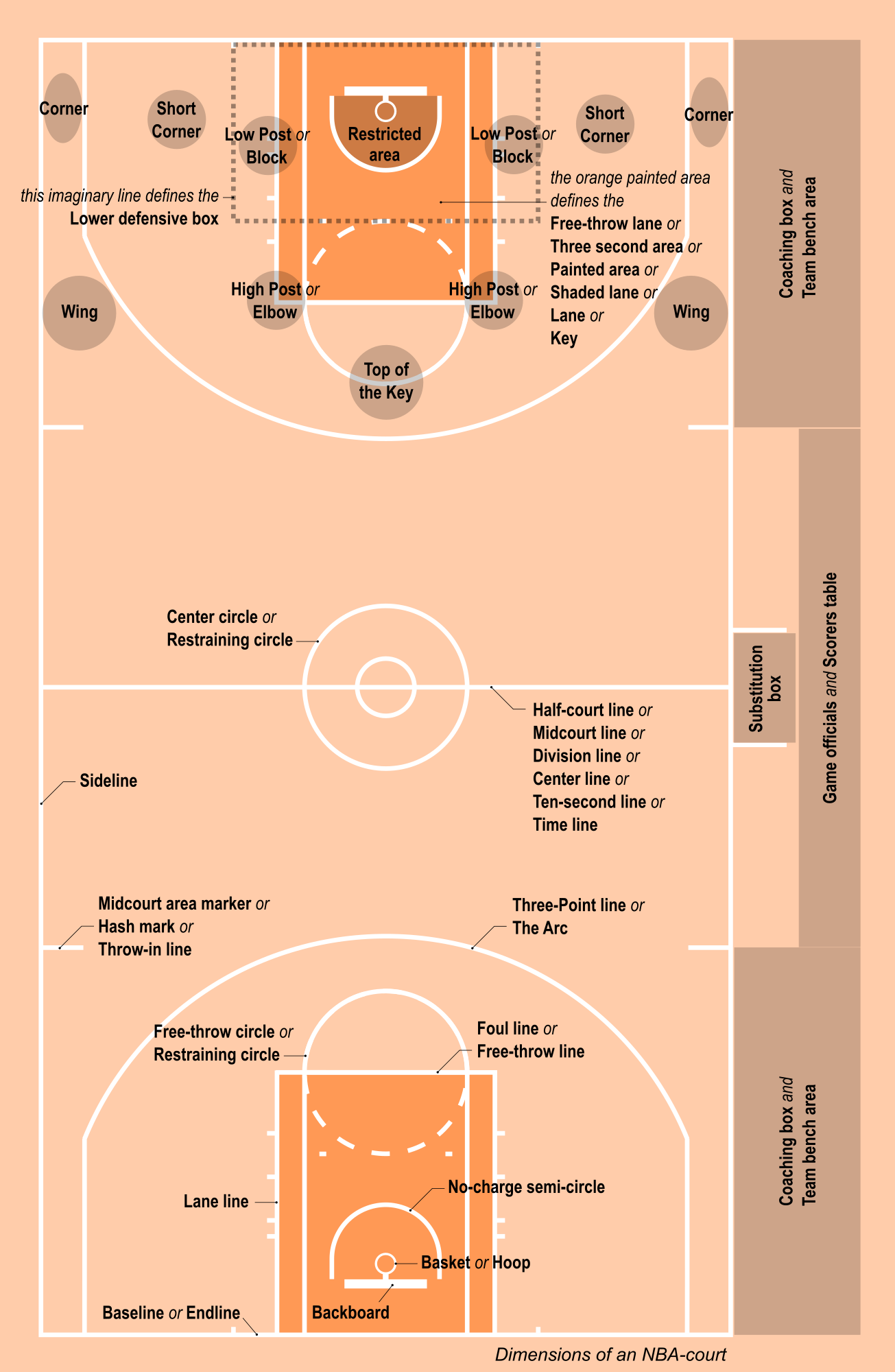 This drawing/sketchup shows the most important terms related to the basketball court: Corner, Short Corner, Low Post, Block, Restricted area, Wing, High Post, Elbow, Top of the Key, Lower defensive box, Free-throw lane, Three second area, Painted area, Shaded lane, Lane, Key, Center circle, Restraining circle, Sideline, Half-court line, Midcourt line, Division line, Center line, Ten-secound line, Time line, Midcourt area marker, Hash mark, Throw-in line, Three-Point line, The Arc, Three-throw circle, Restraining circle, Foul line, Free-throw line, Lane line, No-charge semi-circle, Basket, Hoop, Backboard, Baseline, Endline, Coaching box, Team bench area, Substitution box, Game officials and Scorers table